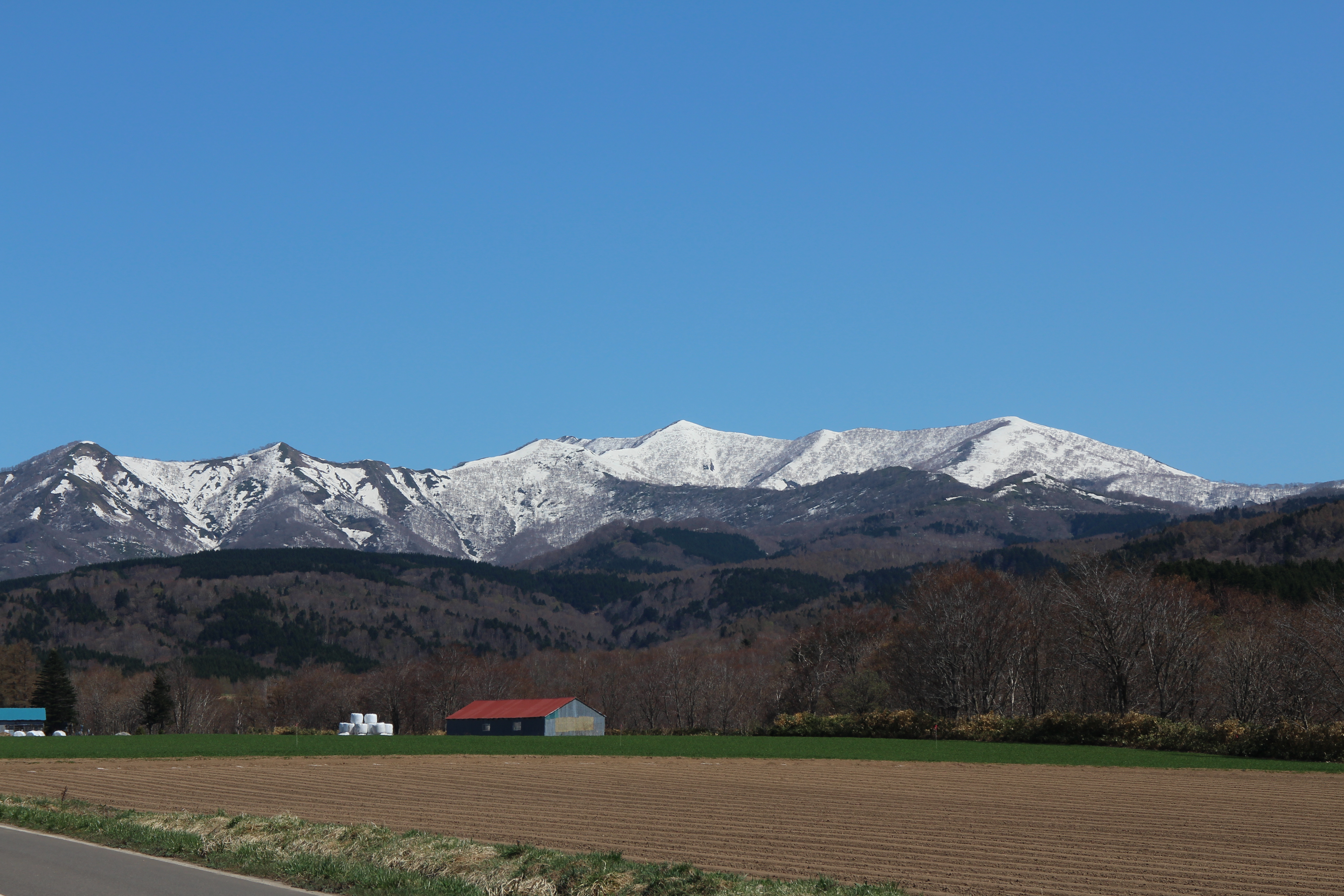 Mount Meppu seen from the South.